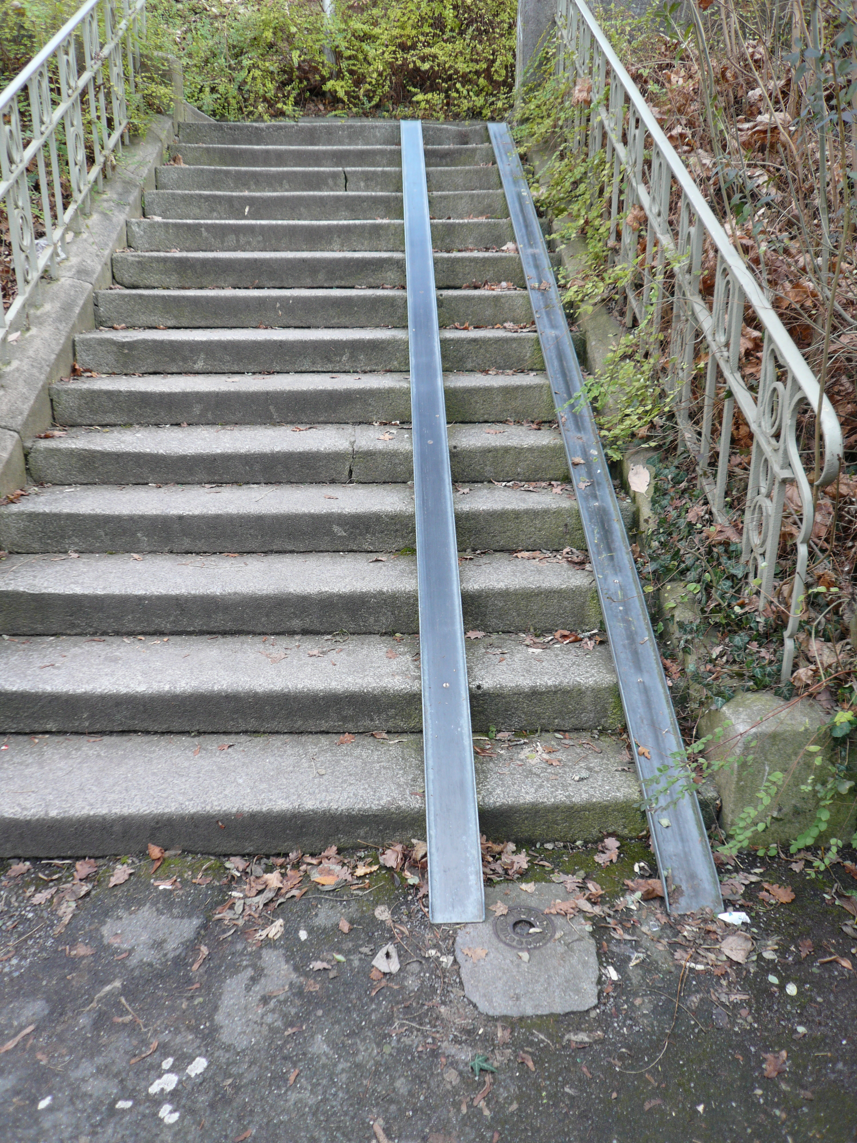 Rails on stairs for moving a perambulator